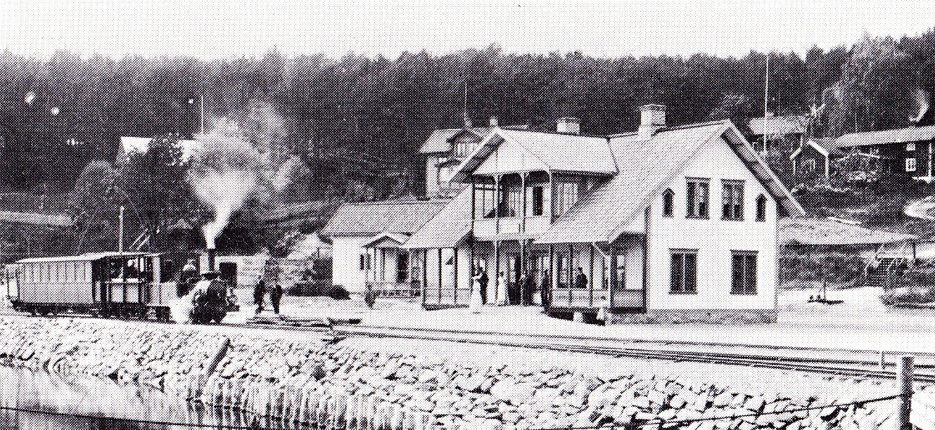 Kolmården railway station on Stafsjö Järnväg in Sweden.